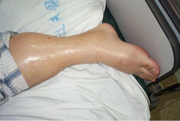 Interleukin-11 (IL-11) caused leg edema, due to capillary leak syndrome.